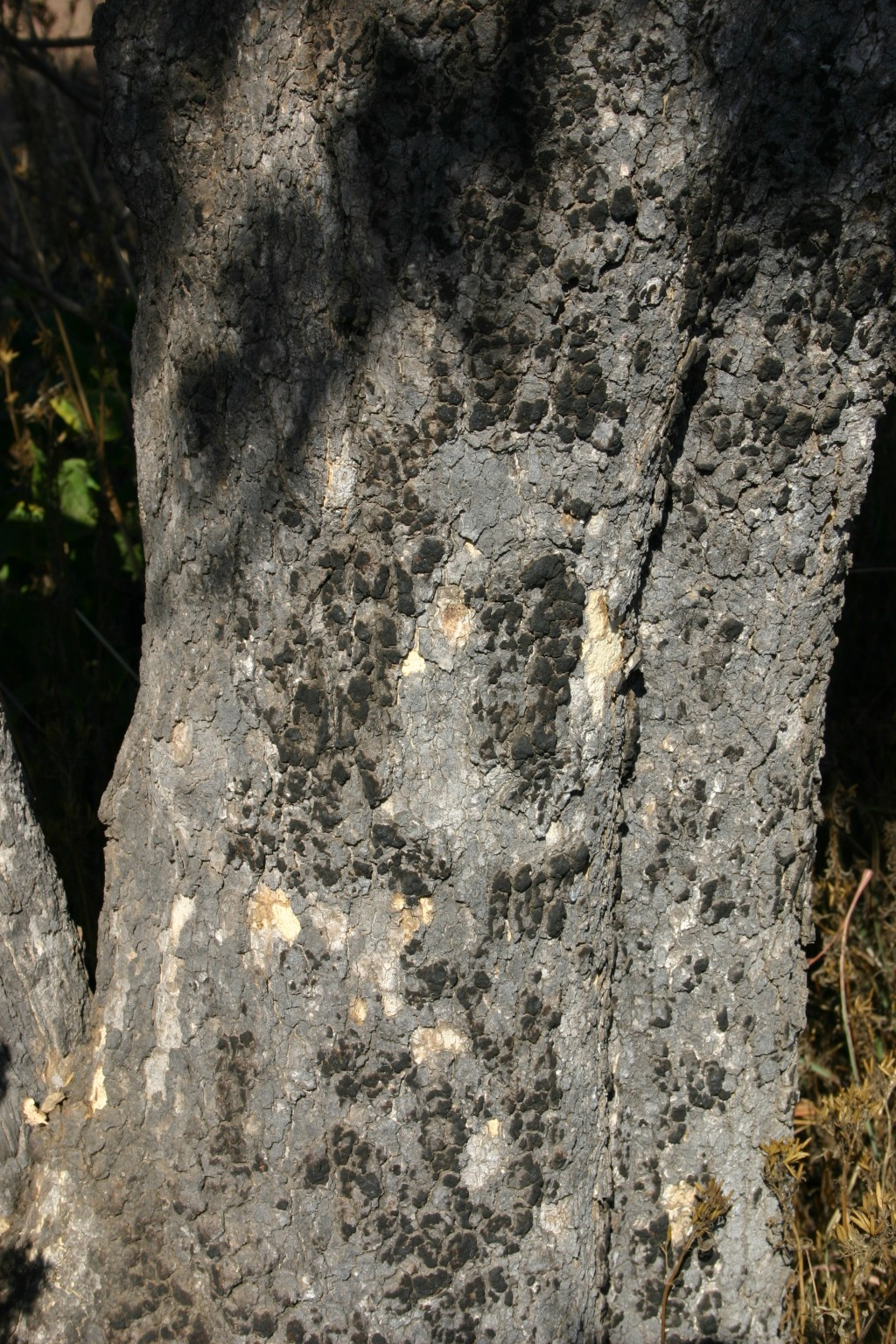 Trunk and bark of a Spine-leaved monkey-orange near Buffelspoort Dam, Marikana, South Africa